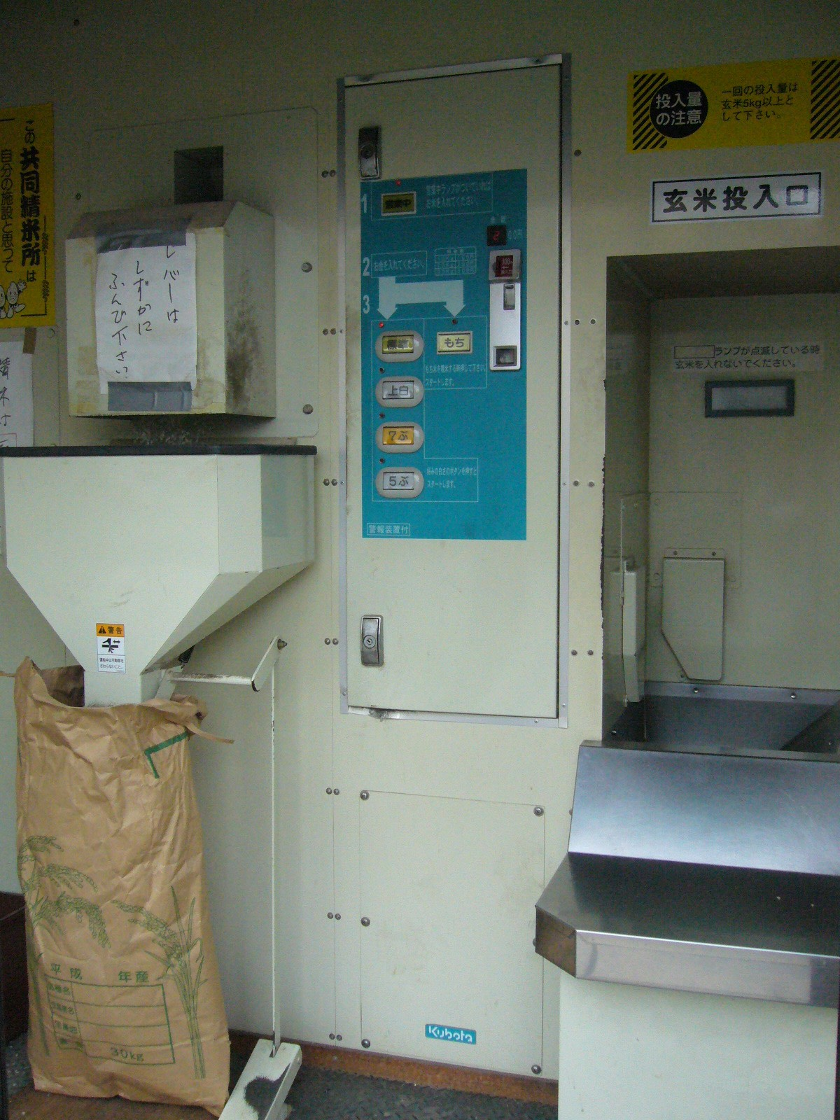 Rice-polishing-machine, Katori City, Japan.